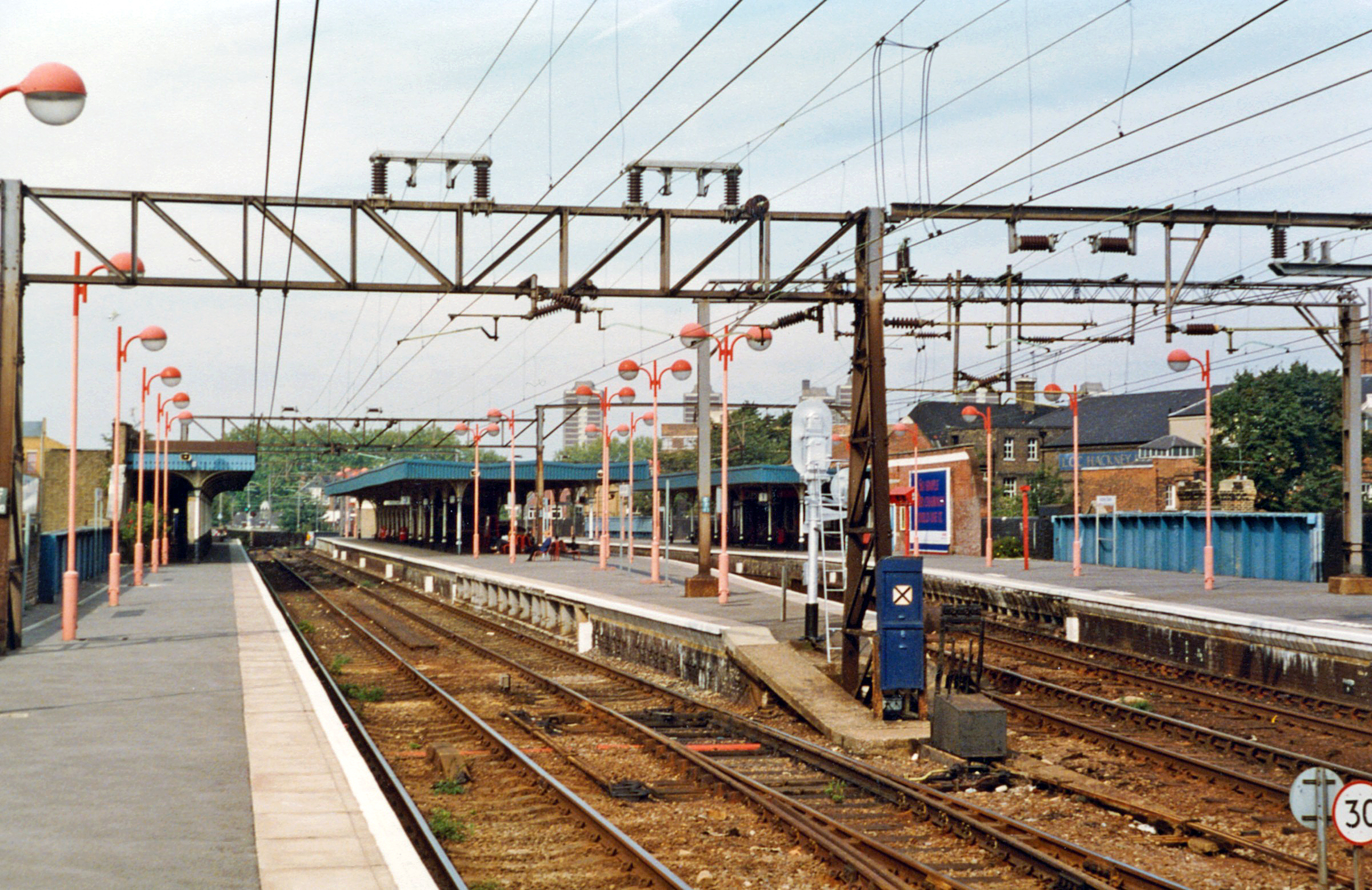 Hackney Downs station, 1993. View northward, towards Enfield Town to left, Tottenham Hale, Broxbourne and Cambridge to right: ex-GER Liverpool Street - Cambridge etc. main line, junction of Enfield Town branch; suburban lines electrified 1960, to Cambridge 1983.